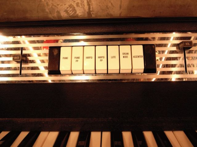 Tablet switches of an RMI 368x Electra-piano.